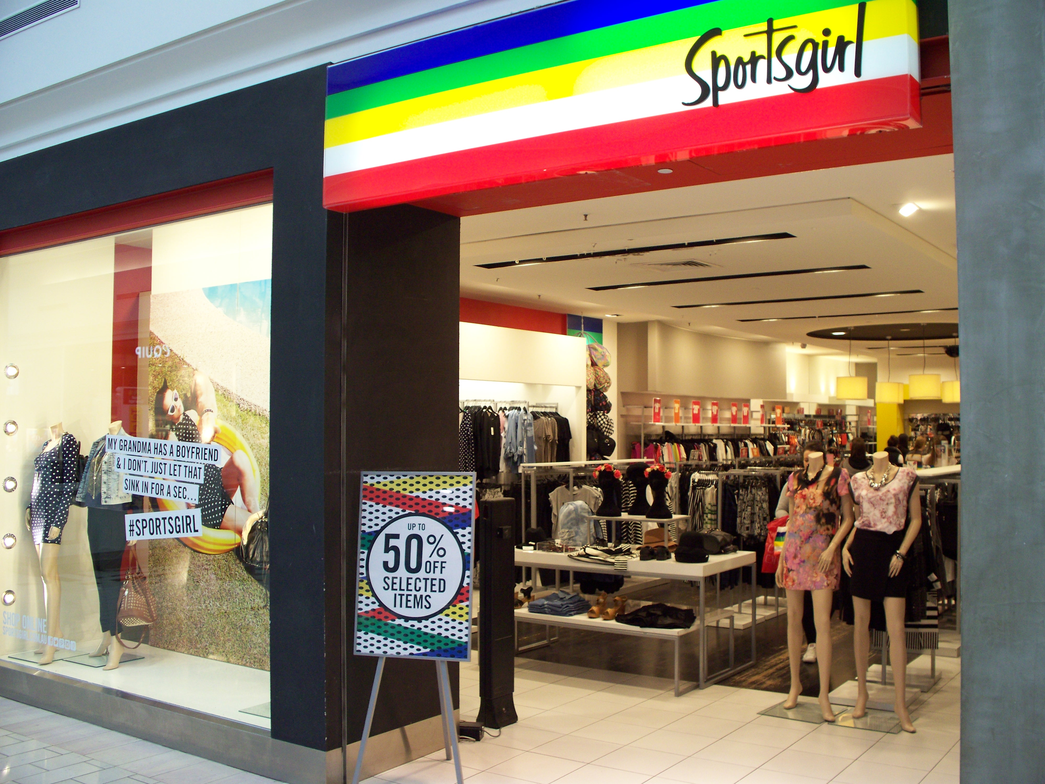 A Sportsgirl outlet within the Eastland Shopping Centre, Ringwood, in eastern Melbourne.